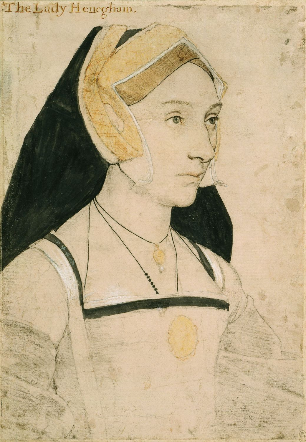 Portrait of Mary, Lady Heveningham. Coloured chalks, pen and Indian ink, wash, white bodycolour, 30.3 × 21.1 cm, Royal Collection, Windsor Castle. This drawing has been reworked by other hands than Holbein's. Art historian K. T. Parker called the black fall of the headdress "daubed over" (Parker, p.46). The drawing has also been heavily rubbed. Parker detected Holbein's remaining strokes in the outline of the décolletage and in the sleeves. The sitter has been speculated as the same as that in Holbein's English Lady at Winterthur, but the connection is doubtful. Lady Heveningham's identity is not certain: she has been thought to be either Mary Shelton (d. c. 1570), daughter of Sir John Shelton and second wife of Sir Anthony Heveningham, or Anthony Heveningham's mother, who was also a member of the Shelton family. The inscription, added later, is not necessarily reliable. Reference K. T. Parker, The Drawings of Hans Holbein at Windsor Castle, Oxford: Phaidon, 1945, OCLC 822974.